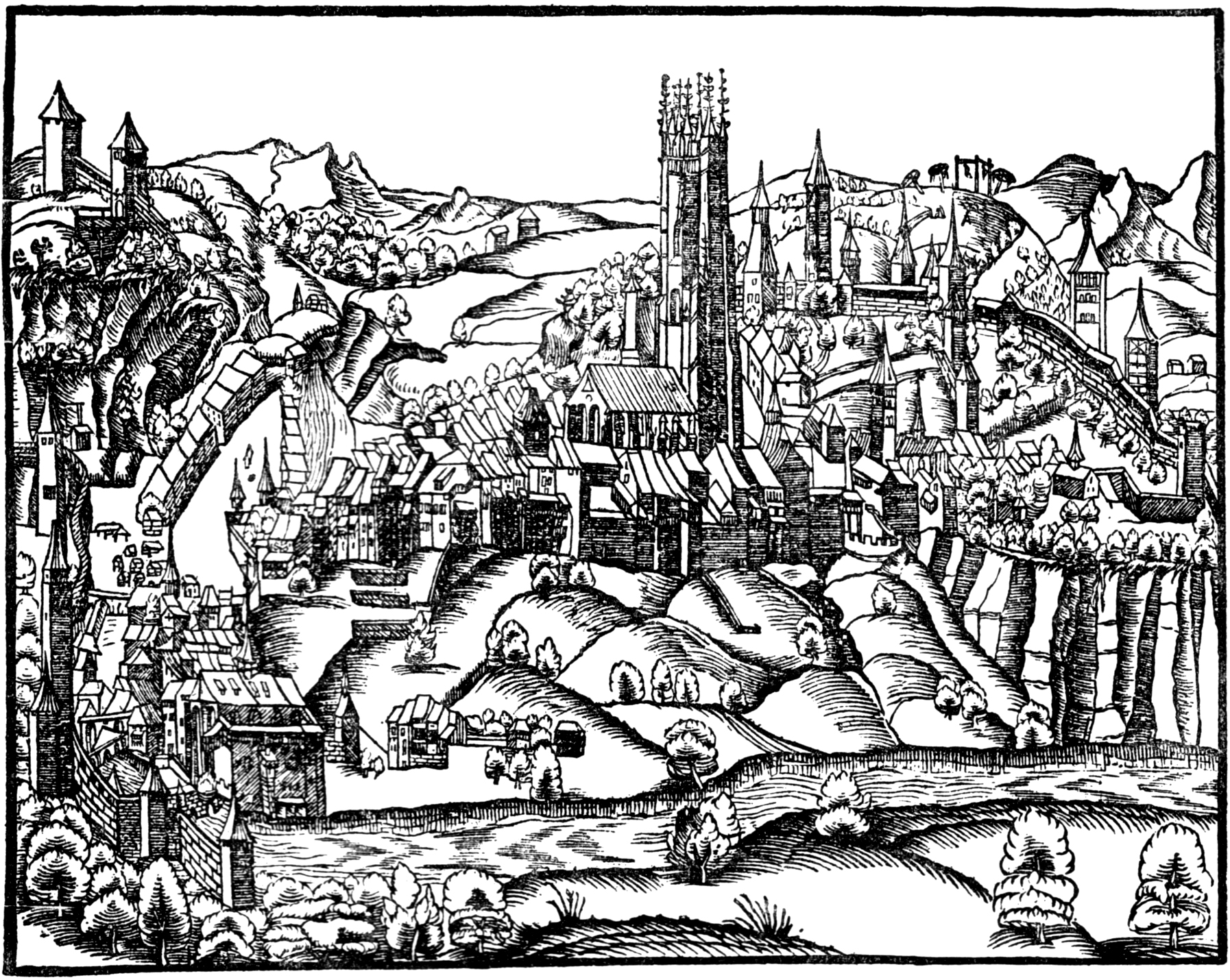 Fribourg in the year 1548, woodcut from the cronicle of Stumpf